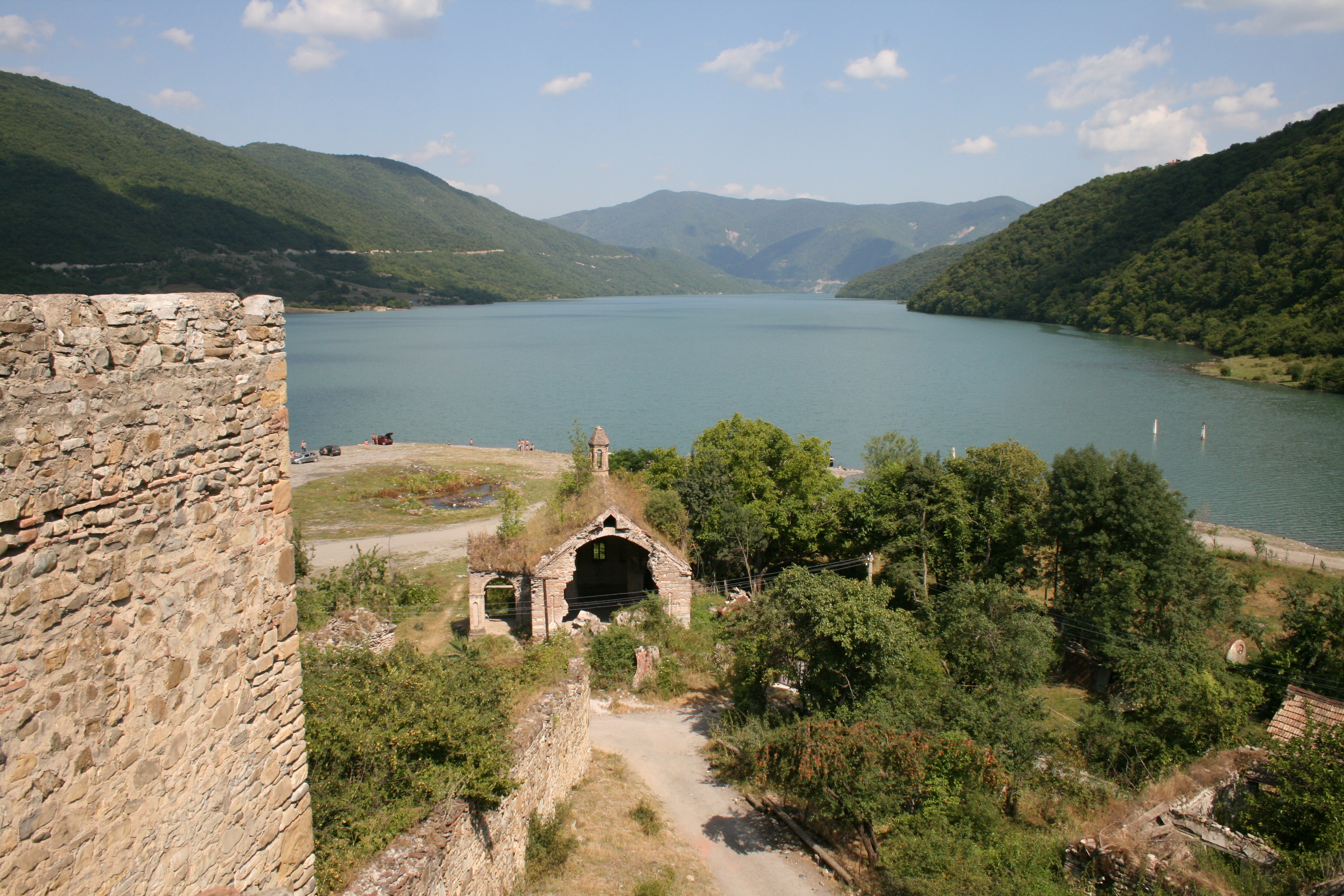 Ananuri castle in Georgia. Ruined structures and Zhinvali reservoir